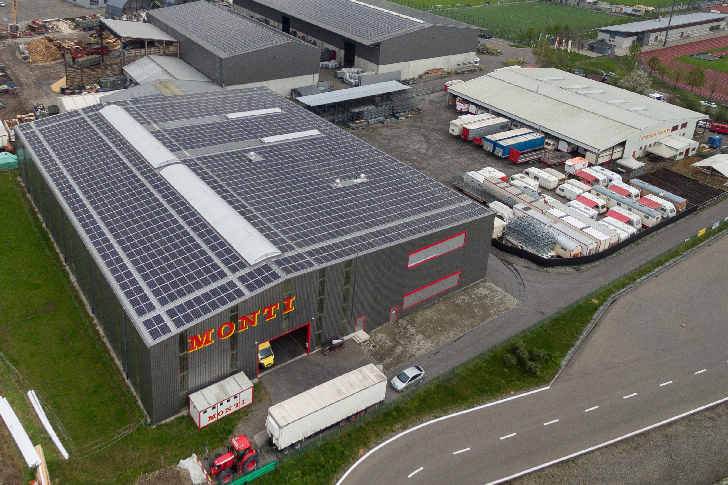 Circus Monti Headquarters Wohlen CH